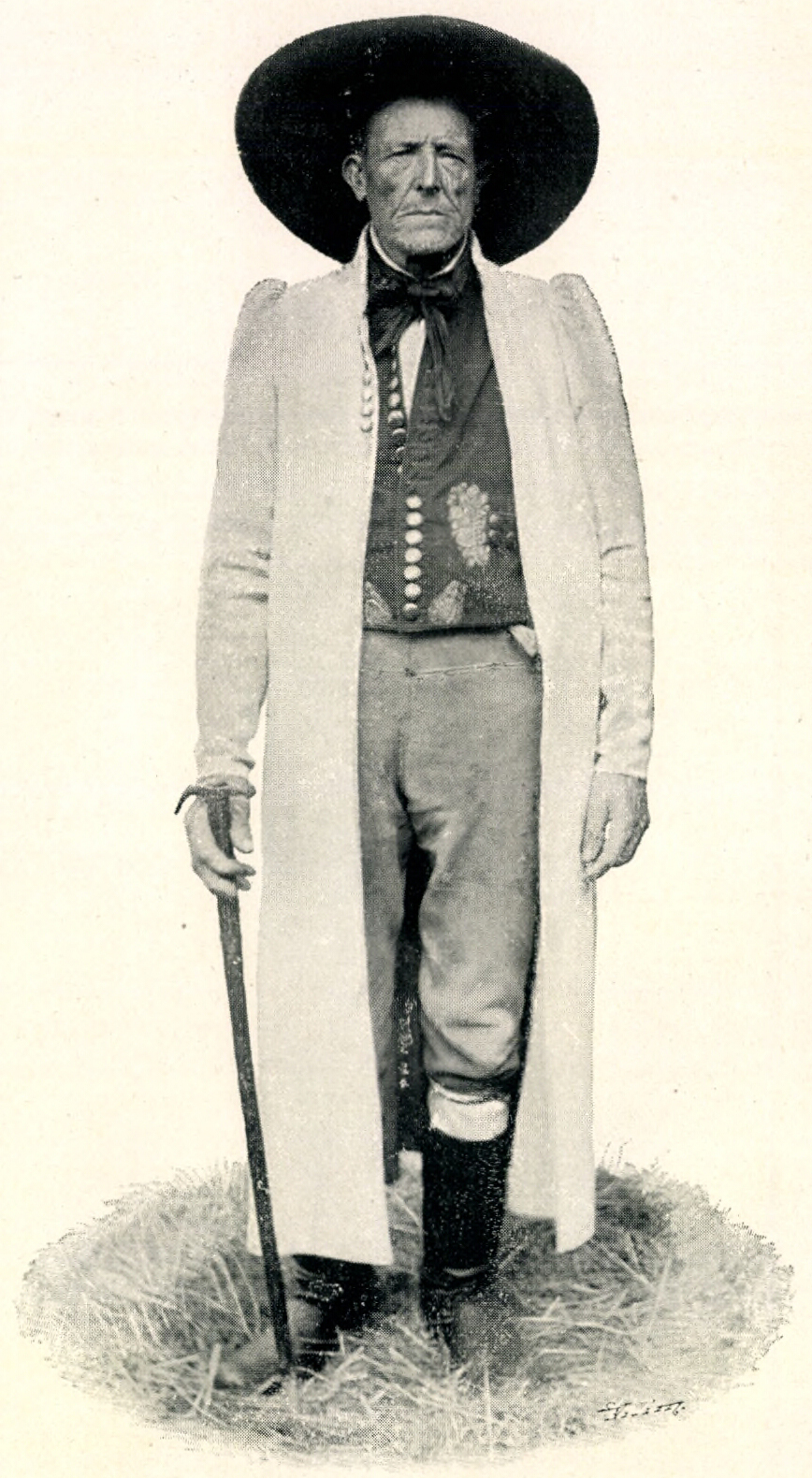 Picture in Guide to the Bohemian section and to the Kingdom of Bohemia: "Chod", a peasant from the environs of Domažlice, now in the Czech Republic.